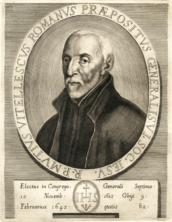 The Jesuit Mutio Vitelleschi (1563-1645)